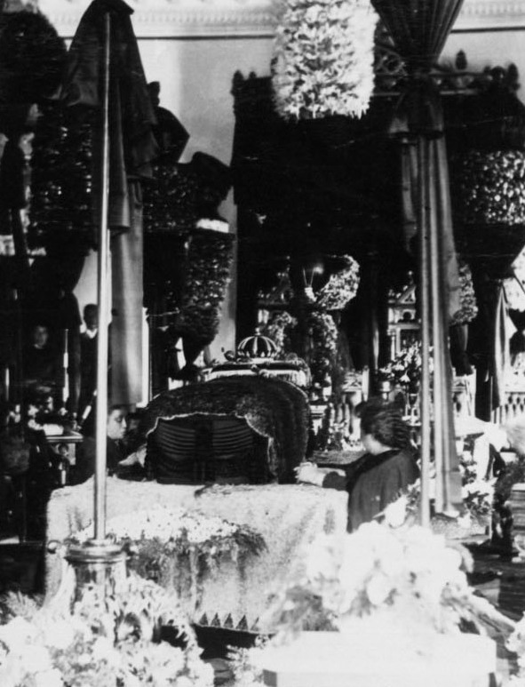 King Kalakaua lying in state at Iolani Palace.